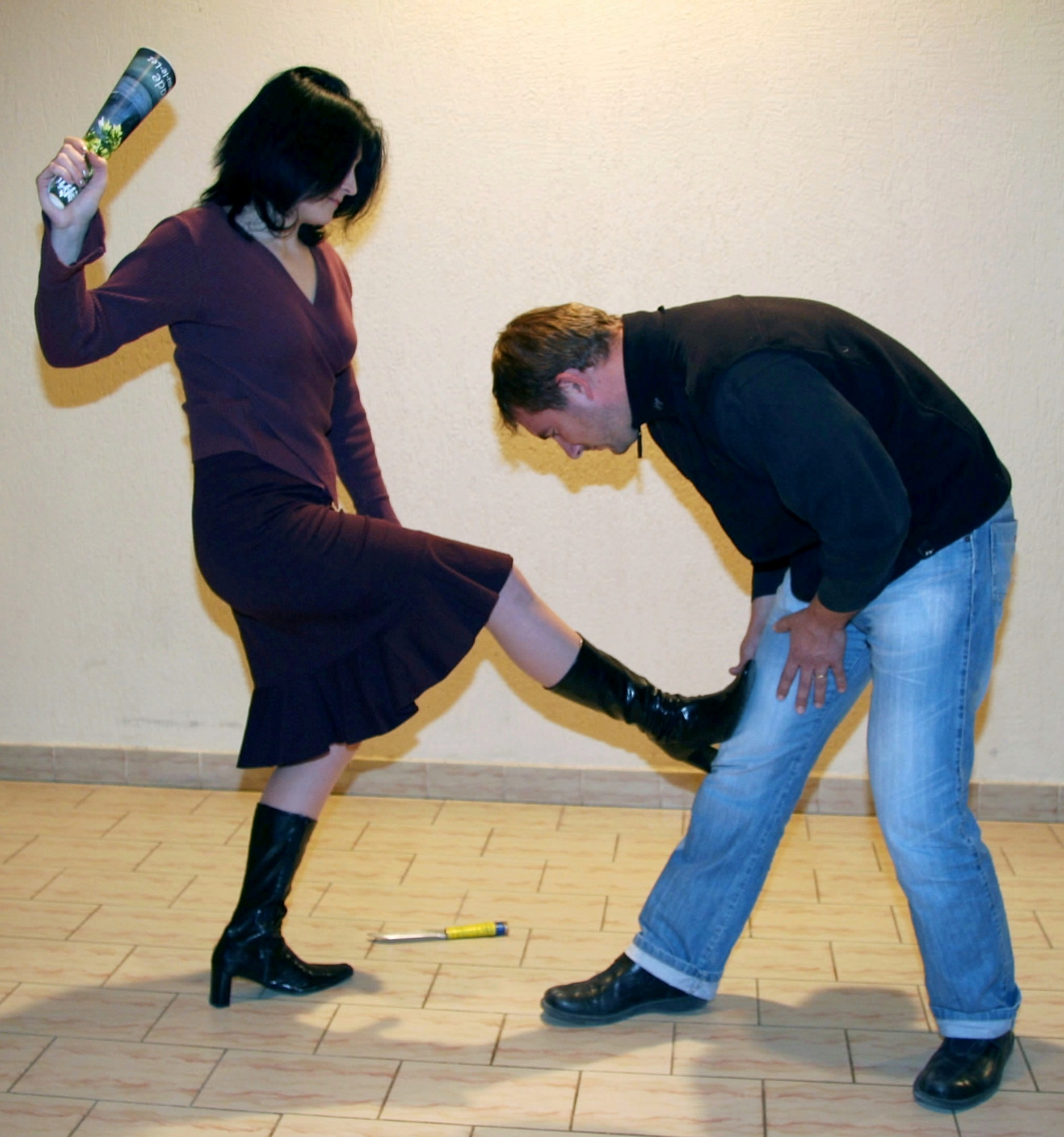 Women Self Defense SPK action